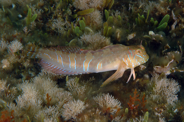 Male Aidablennius sphynx photographed near Tuscany coasts (Italy). Photo by Stefano Guerrieri.